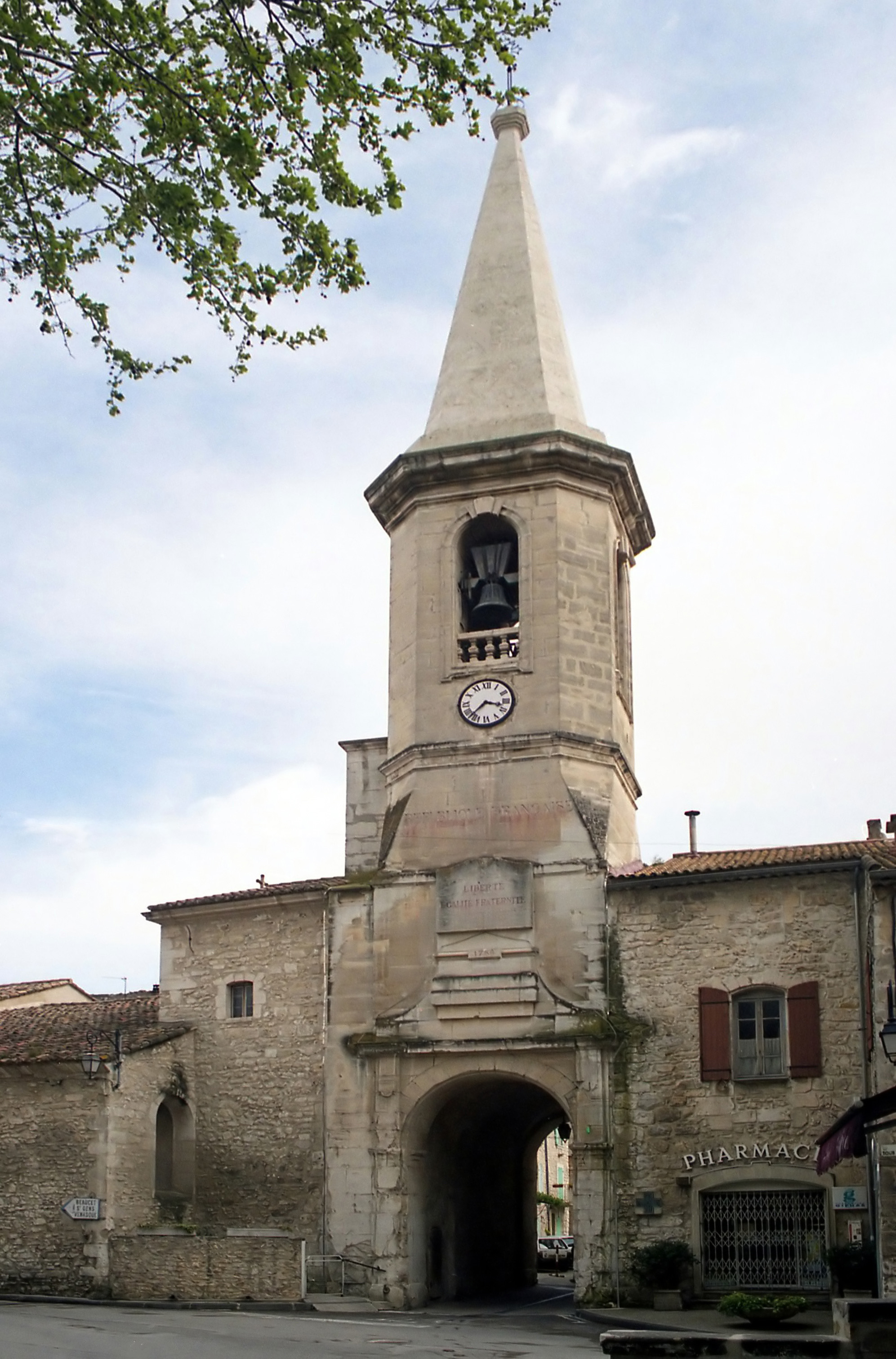 Saint-Didier Church, Saint-Didier, Vaucluse département, France